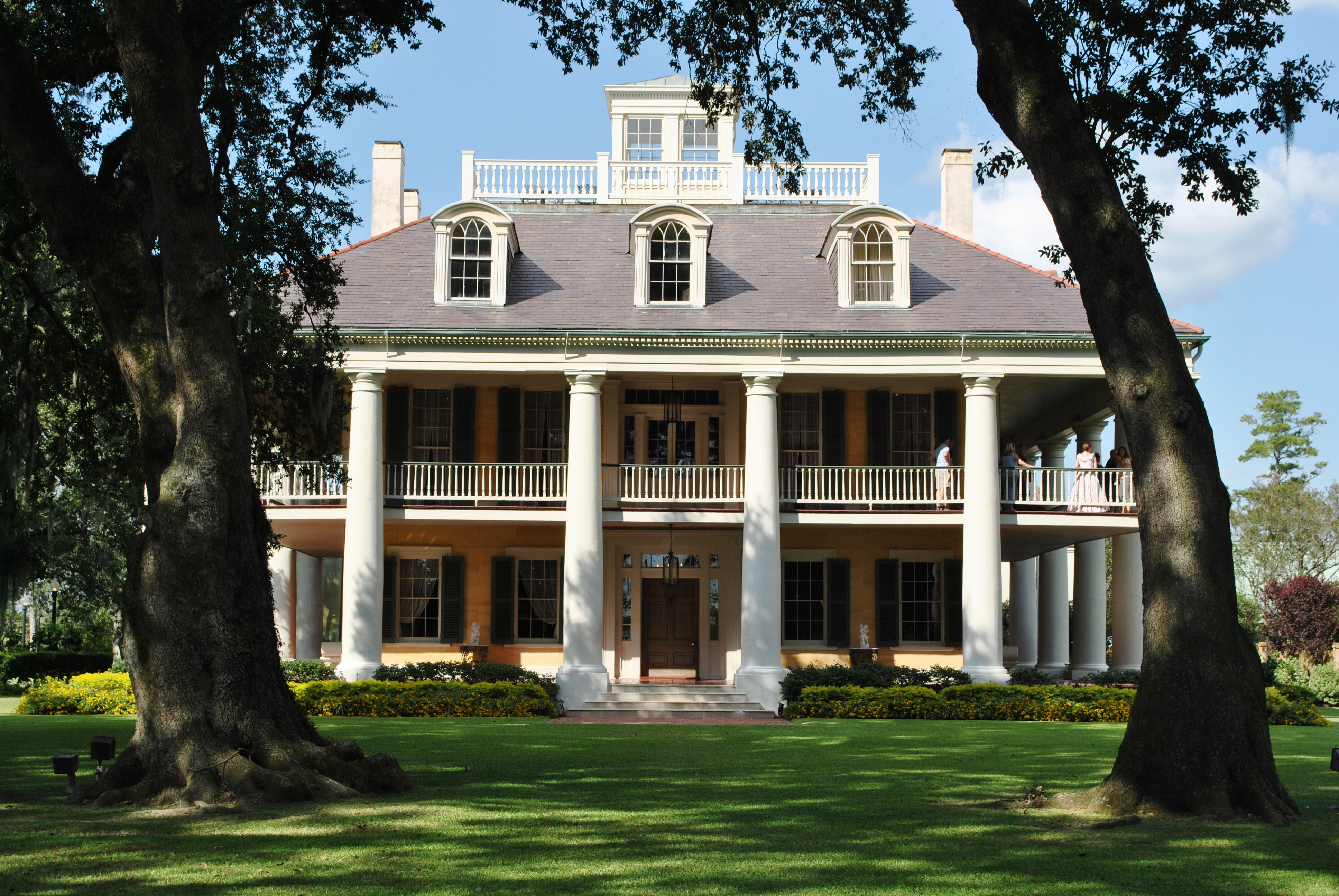 The Houmas